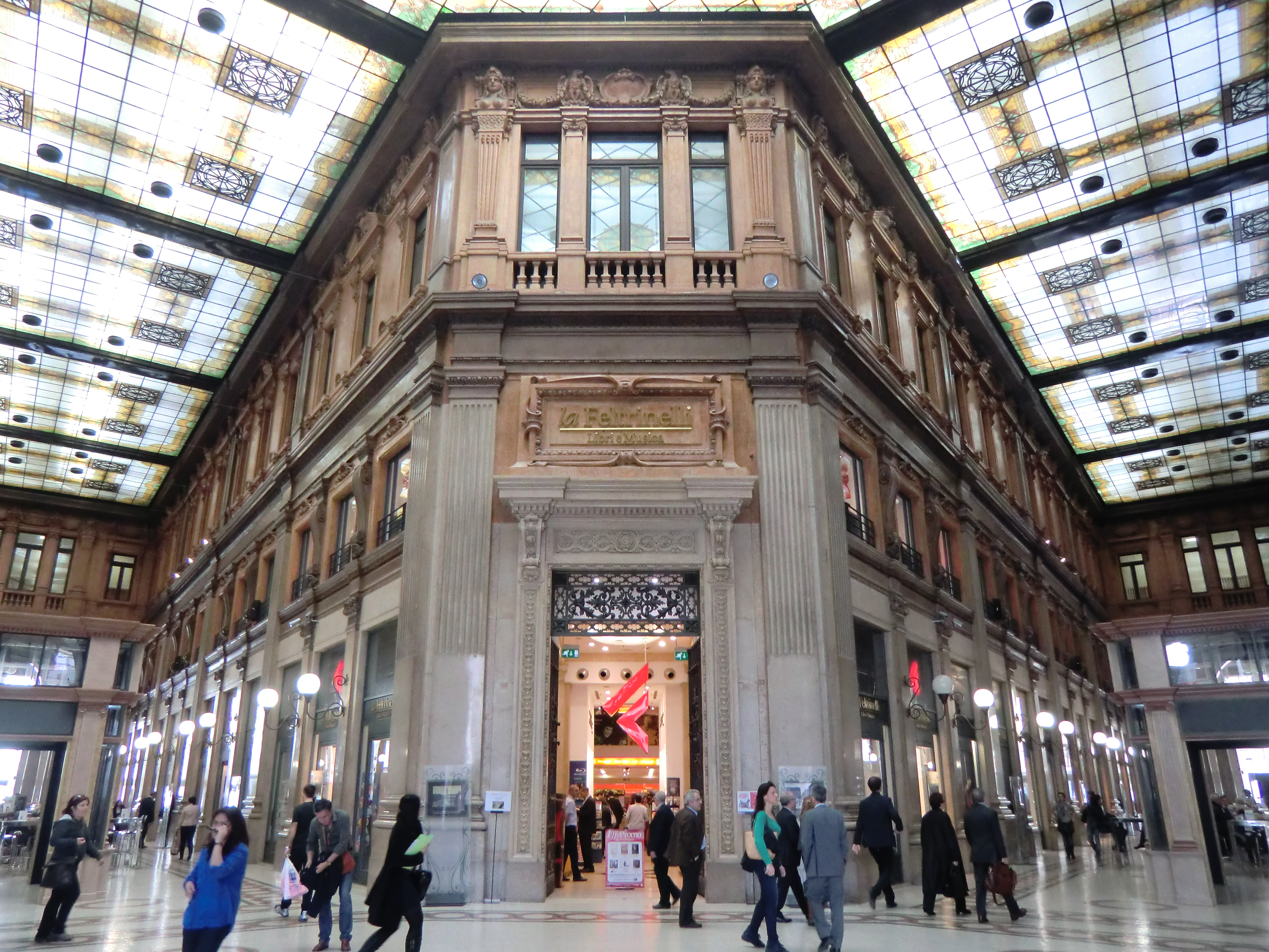 Galleria Alberto Sordi (old name: Galleria Colonna), Rome, Italy